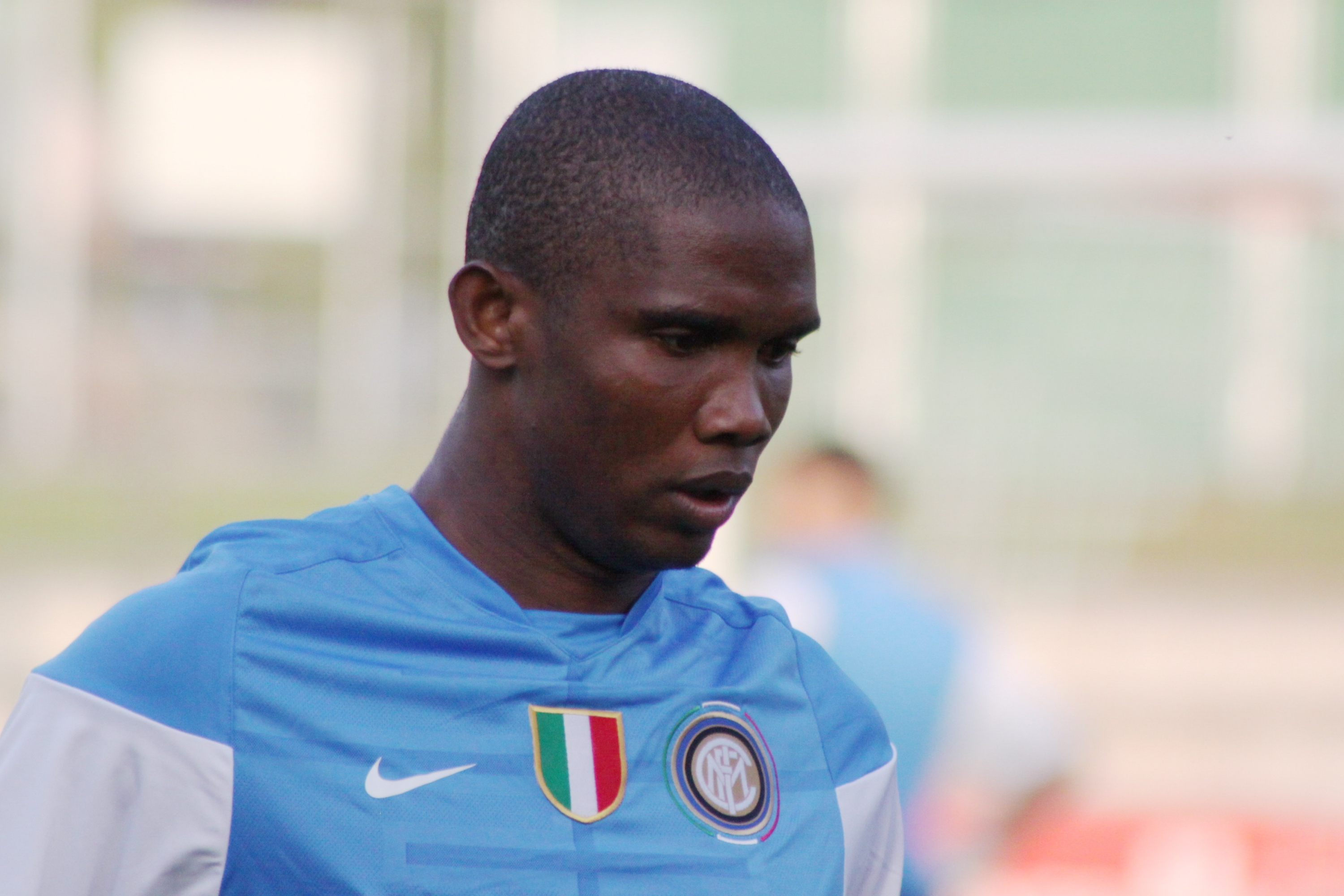 Samuel Eto'o - F.C. Internazionale Milano